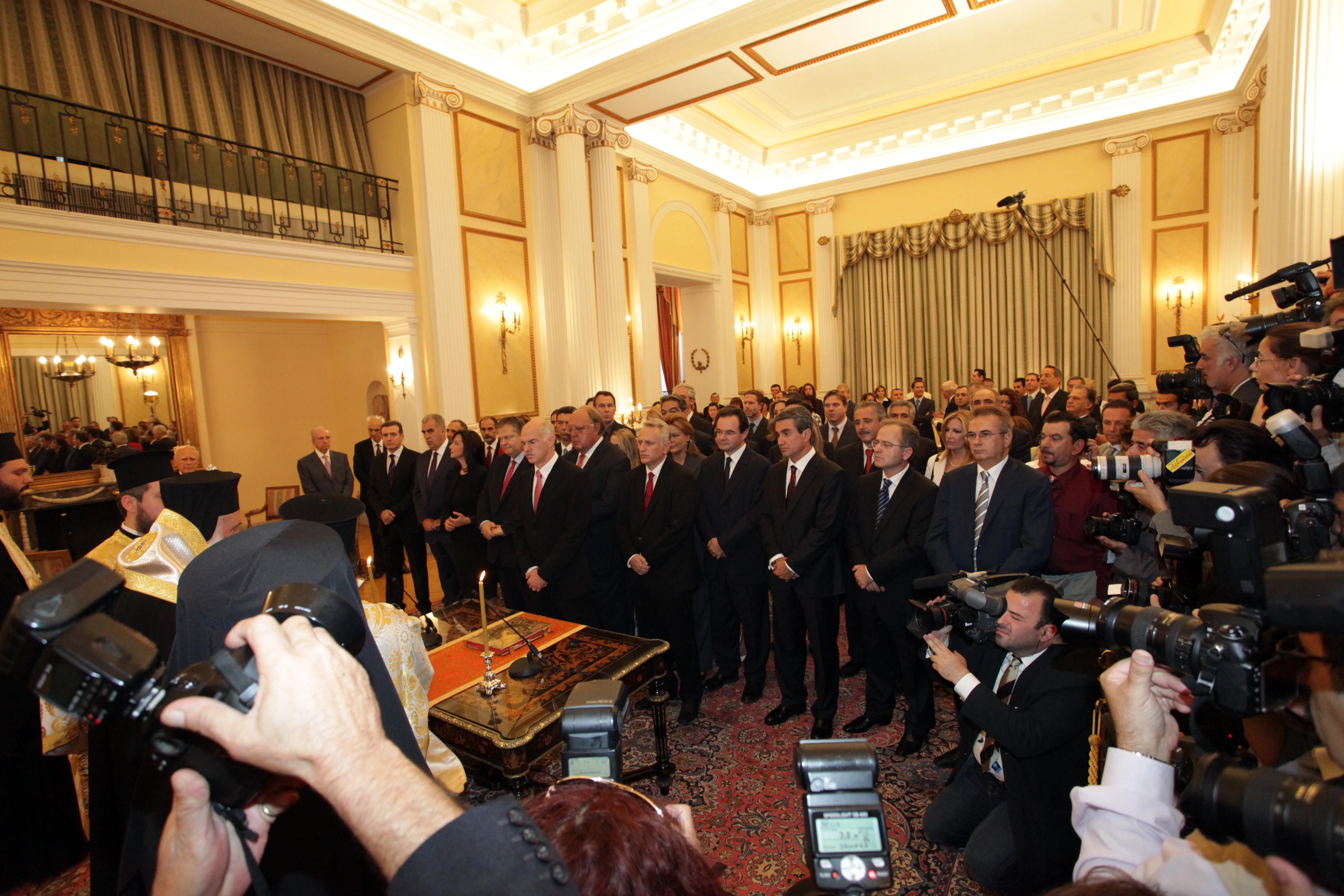 The swearing-in ceremony of the new members of the Ministerial Council of Greece.